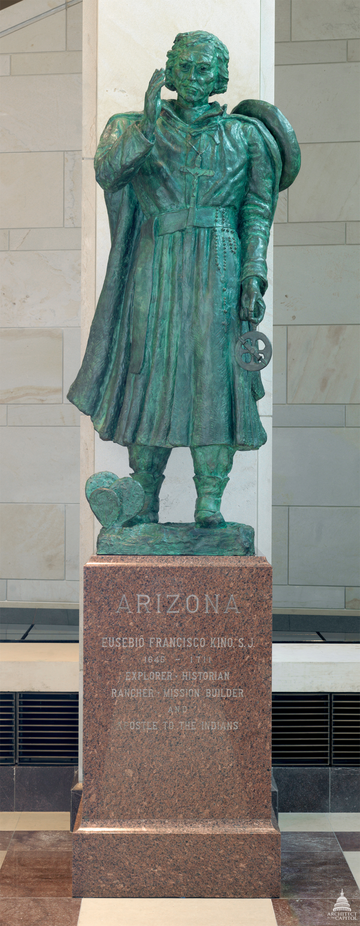 Eusebio Kino (1645-1711) Arizona Bronze by Suzanne Silvercruys Given in 1965 CVC Emancipation Hall U.S. Capitol This official Architect of the Capitol photograph is being made available for educational, scholarly, news or personal purposes (not advertising or any other commercial use). When any of these images is used the photographic credit line should read “Architect of the Capitol.” These images may not be used in any way that would imply endorsement by the Architect of the Capitol or the United States Congress of a product, service or point of view. For more information visit